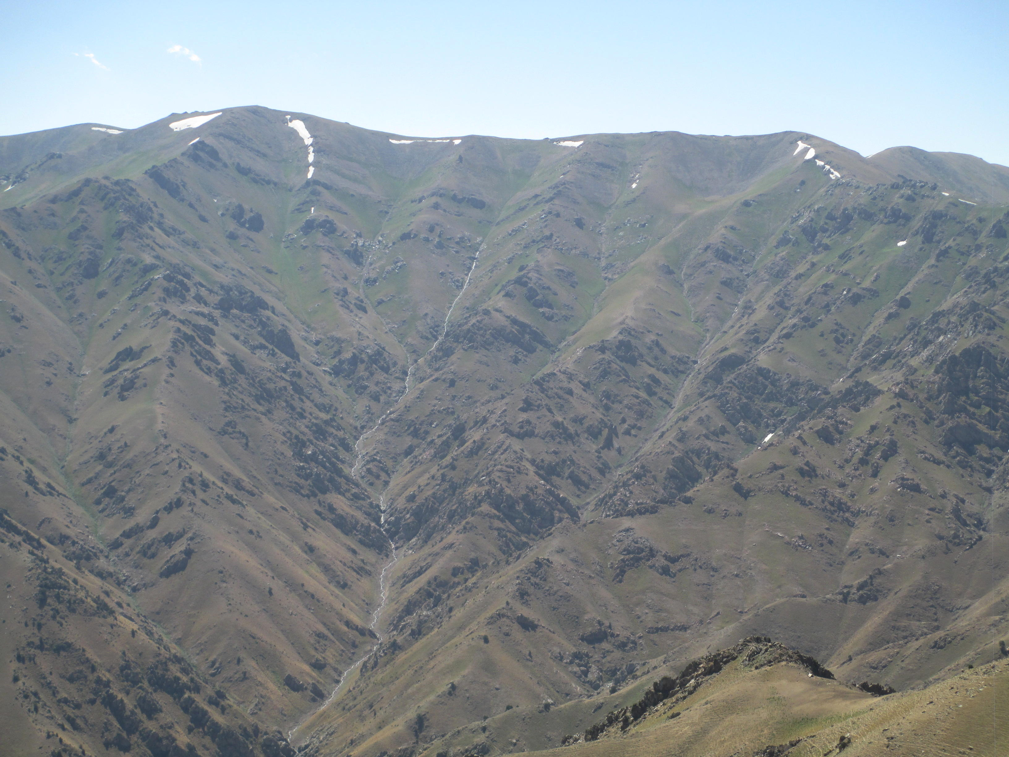 Chatkal ridge, Karabuzuksay originates. Tashkent Area, Uzbekistan